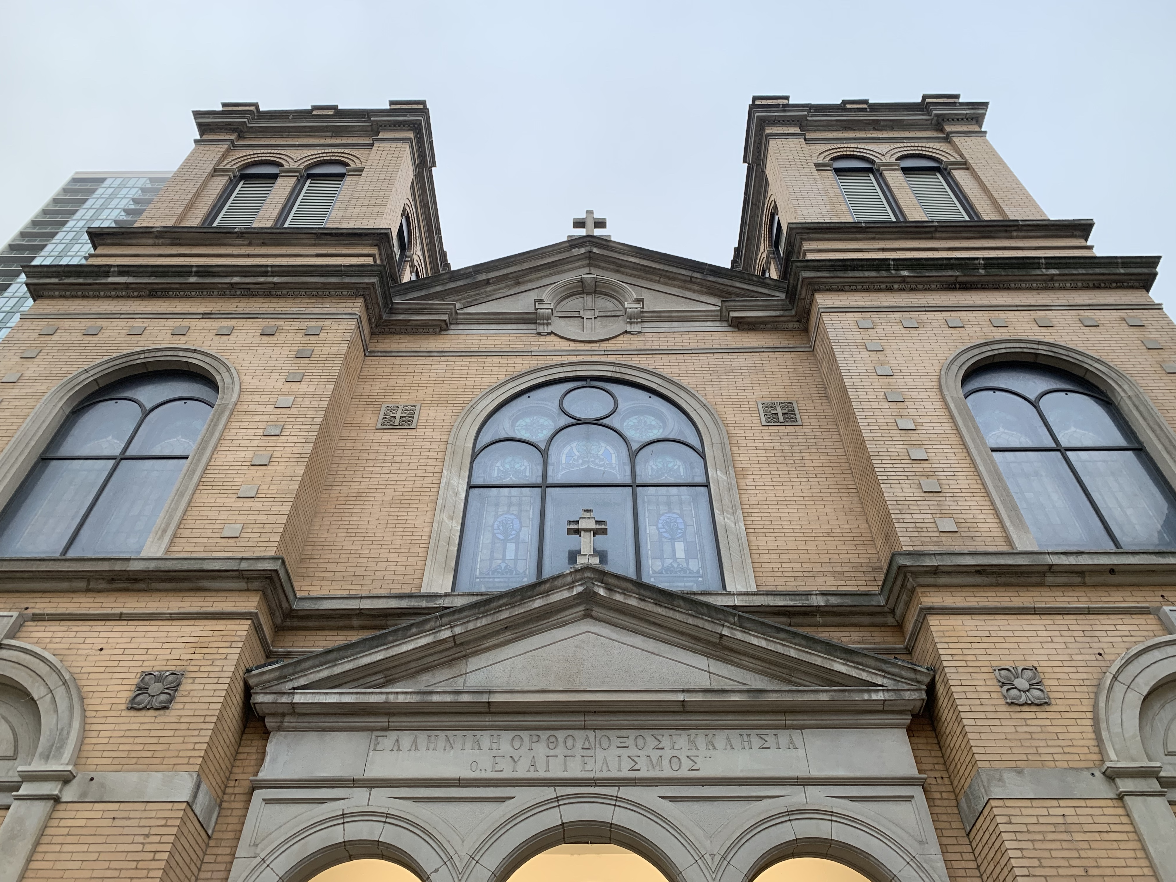 Front of the Annunciation Greek Orthodox Cathedral (Chicago), 2019